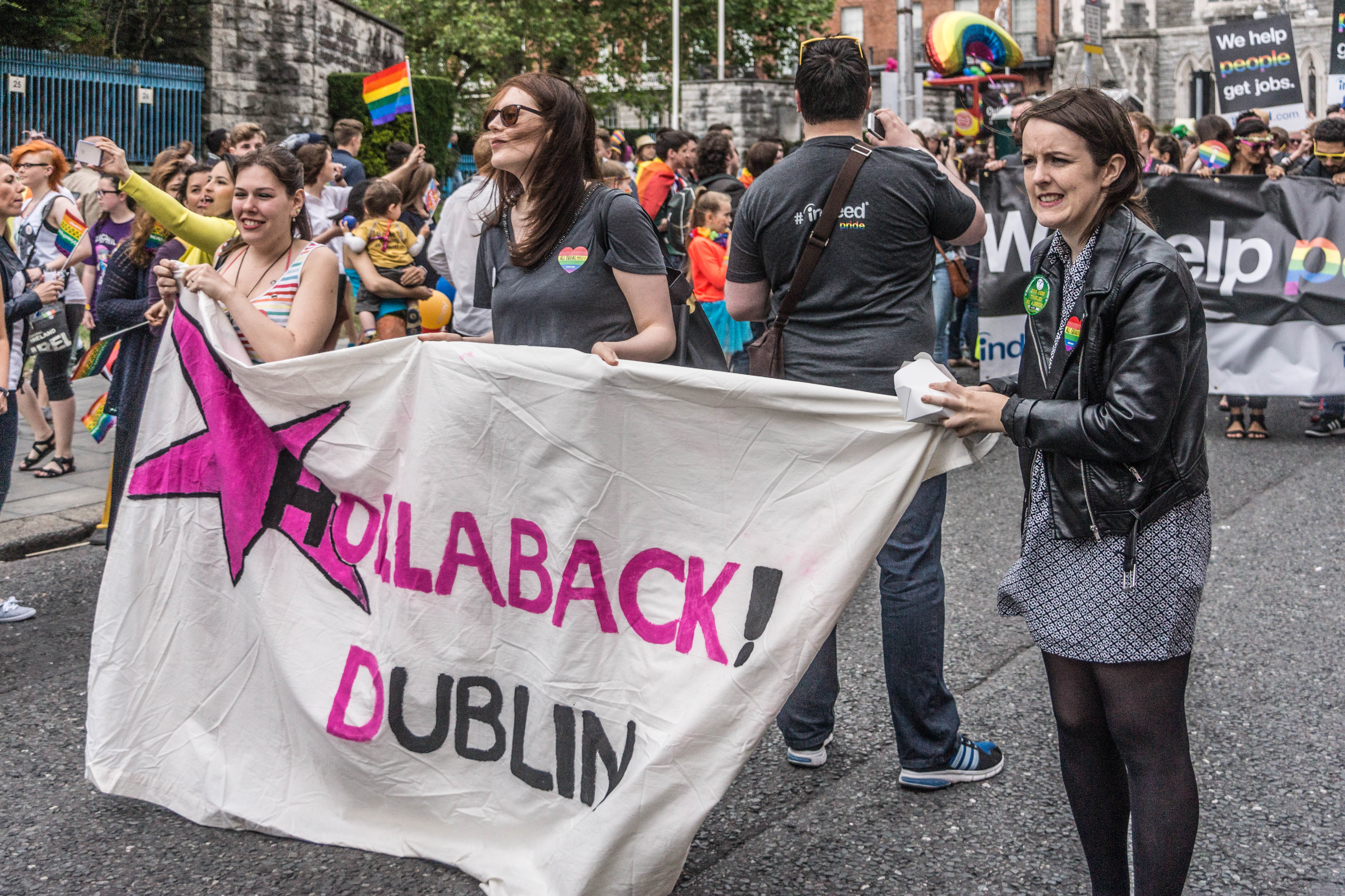 This is one of my favourite annual events. Recently featured in the Lonely Planet guide to the best gay pride celebrations in the world, the Dublin LGBTQ Pride Parade was expected to attract record crowds and it certainly did attract a lot pf interest from visitors and locals. The parade started from the Garden of Remembrance, Parnell Square, at 1.35pm, before heading down O’Connell St, crossing the Liffey and then ending up at the specially constructed Pride Village at Merrion Square.